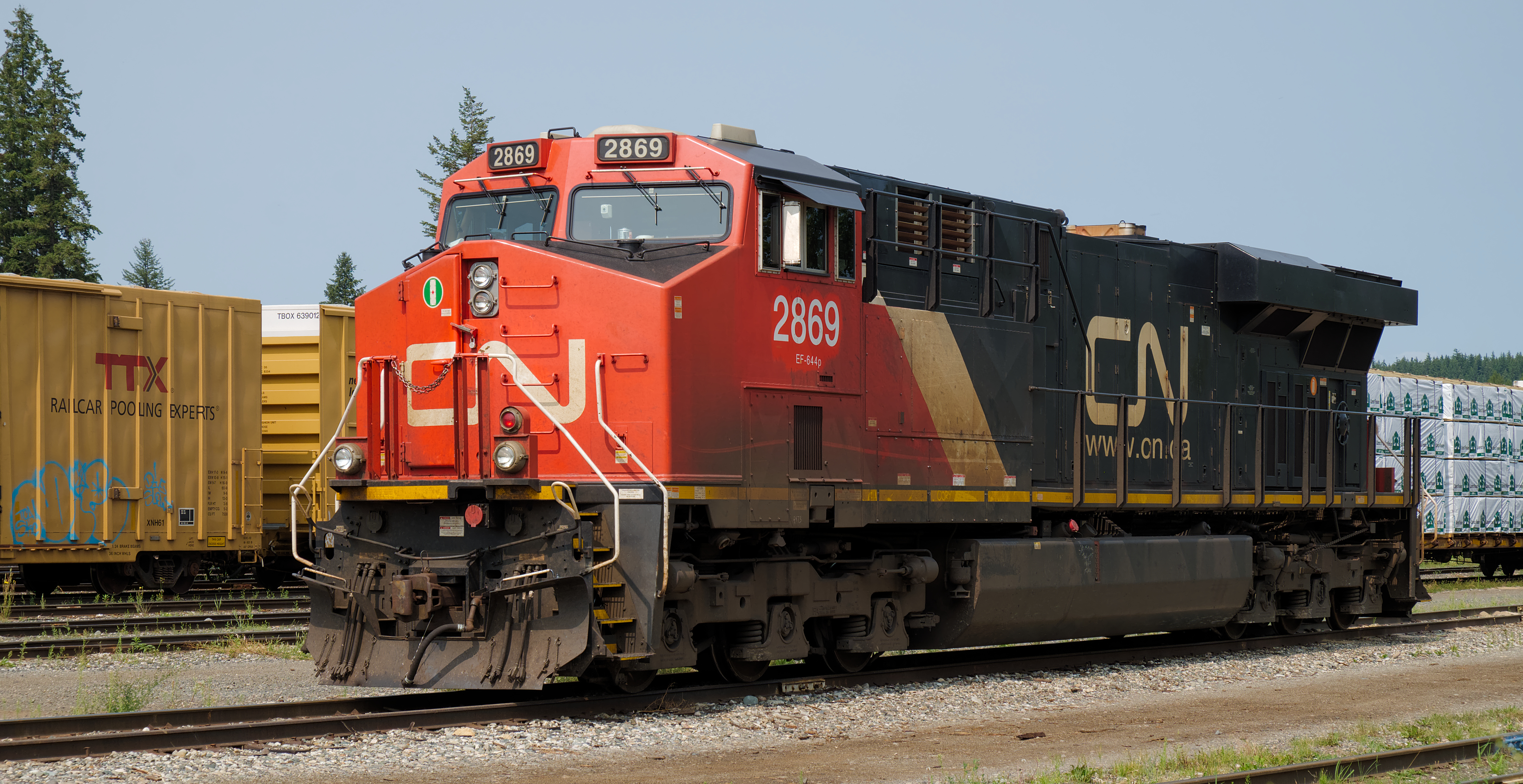 Canadian National Railway CN 2869 EF-644p parked along the Riverwalk Trail in Quesnel, BCGeneral Electric diesel freight locomotive, 6-axles, 4400 HP